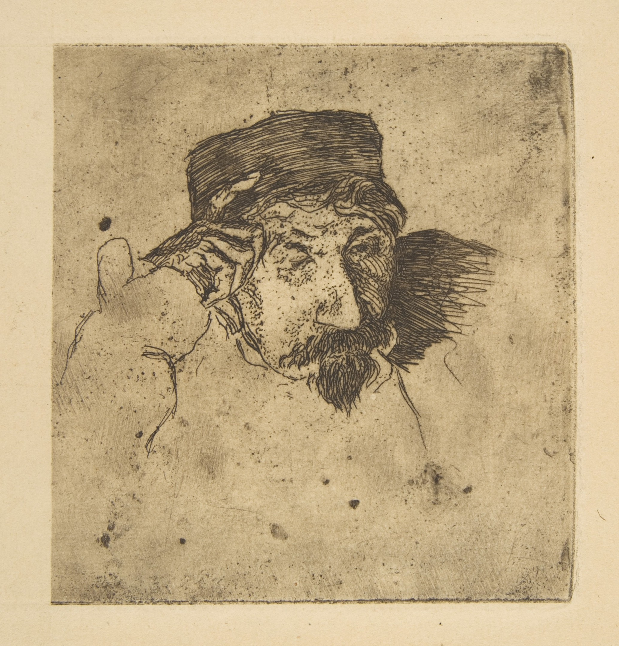 Print; Prints